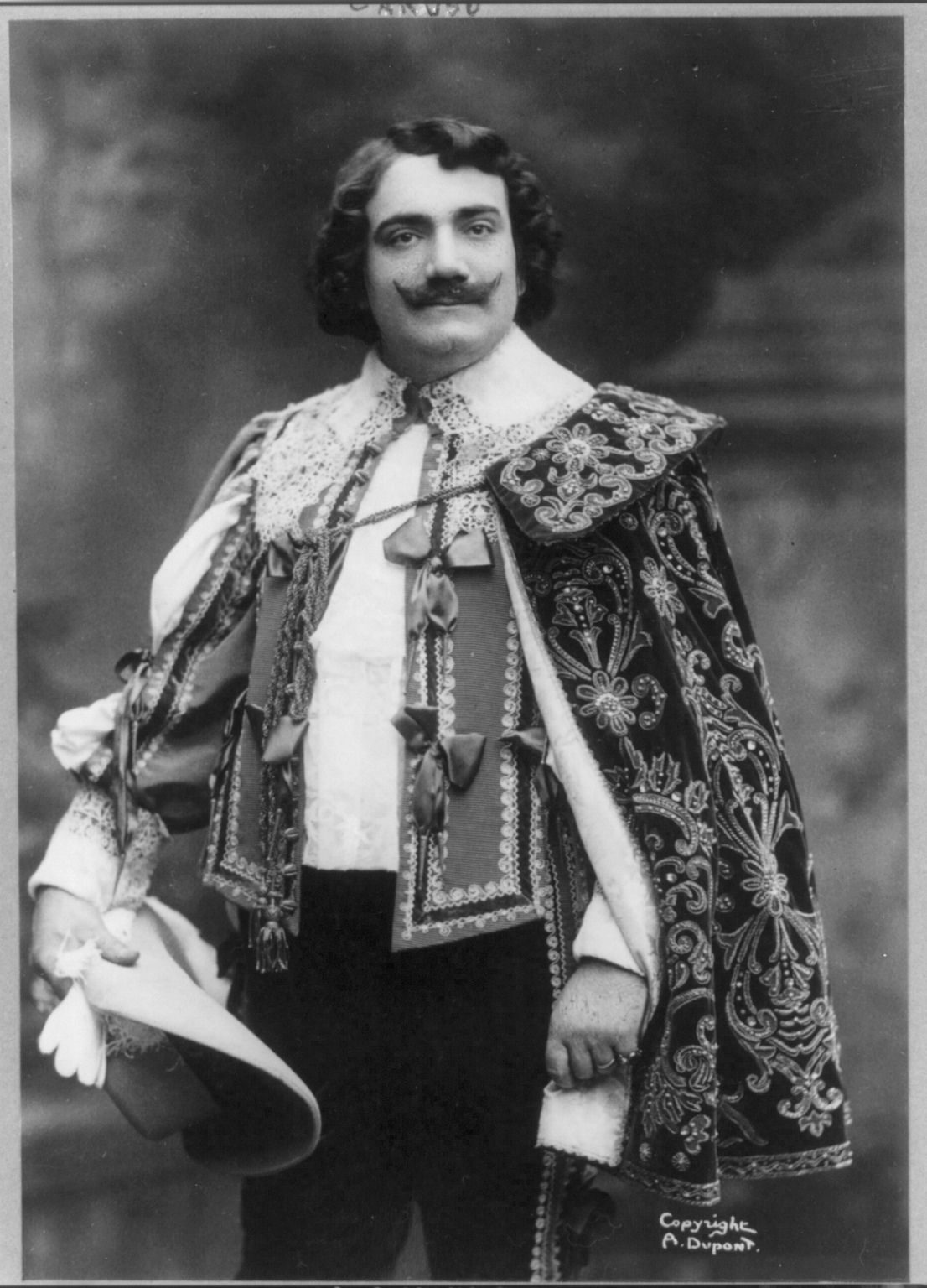 Enrico Caruso, 1873-1921, three-quarter length portrait, standing, facing front, in costume. Portrait of Caruso in operatic role Nadir in Bizet: The Pearl Fishers.